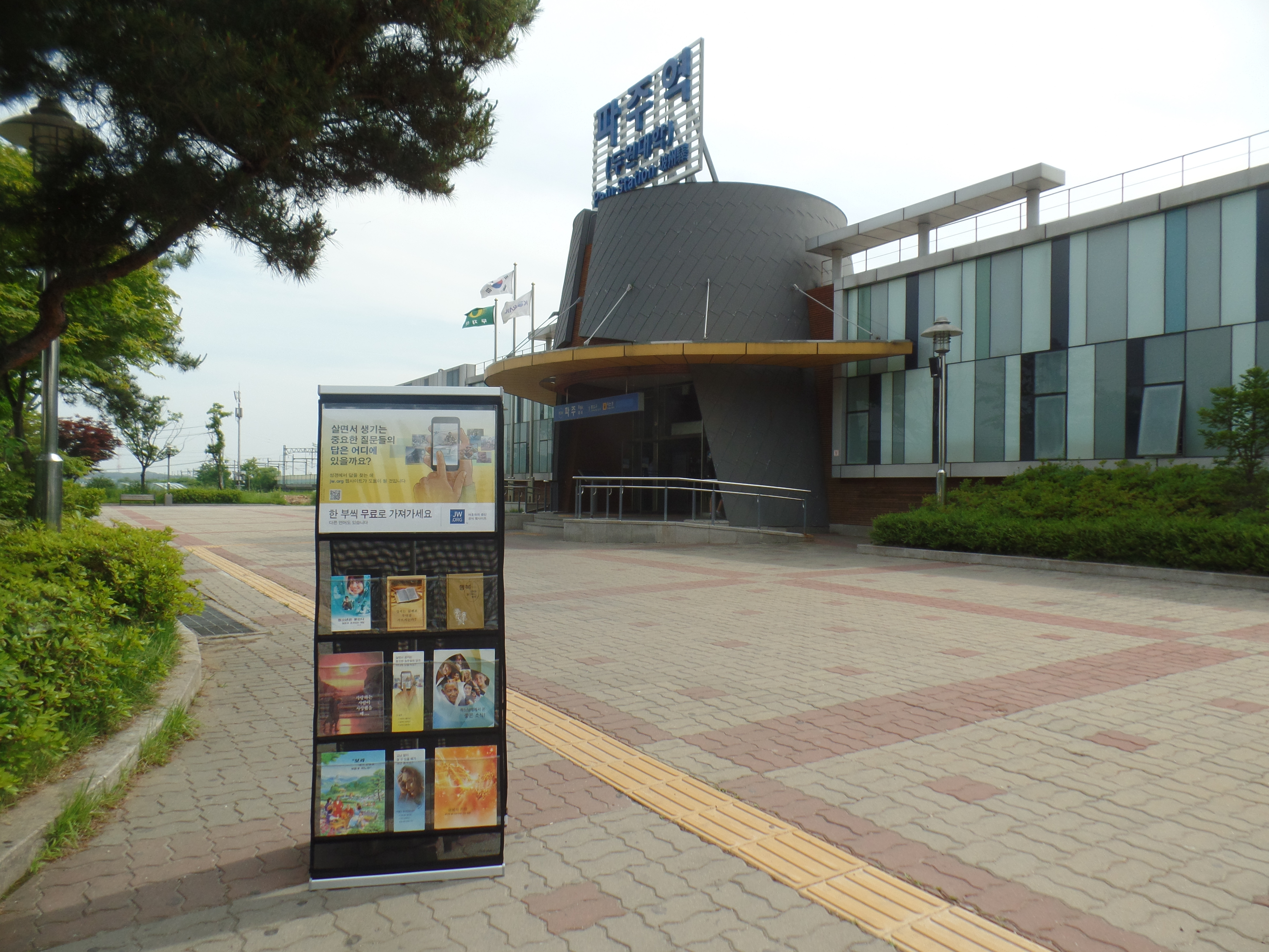 Jehovah's Witnesses Pamphlet Stand in Front of the Paju Station